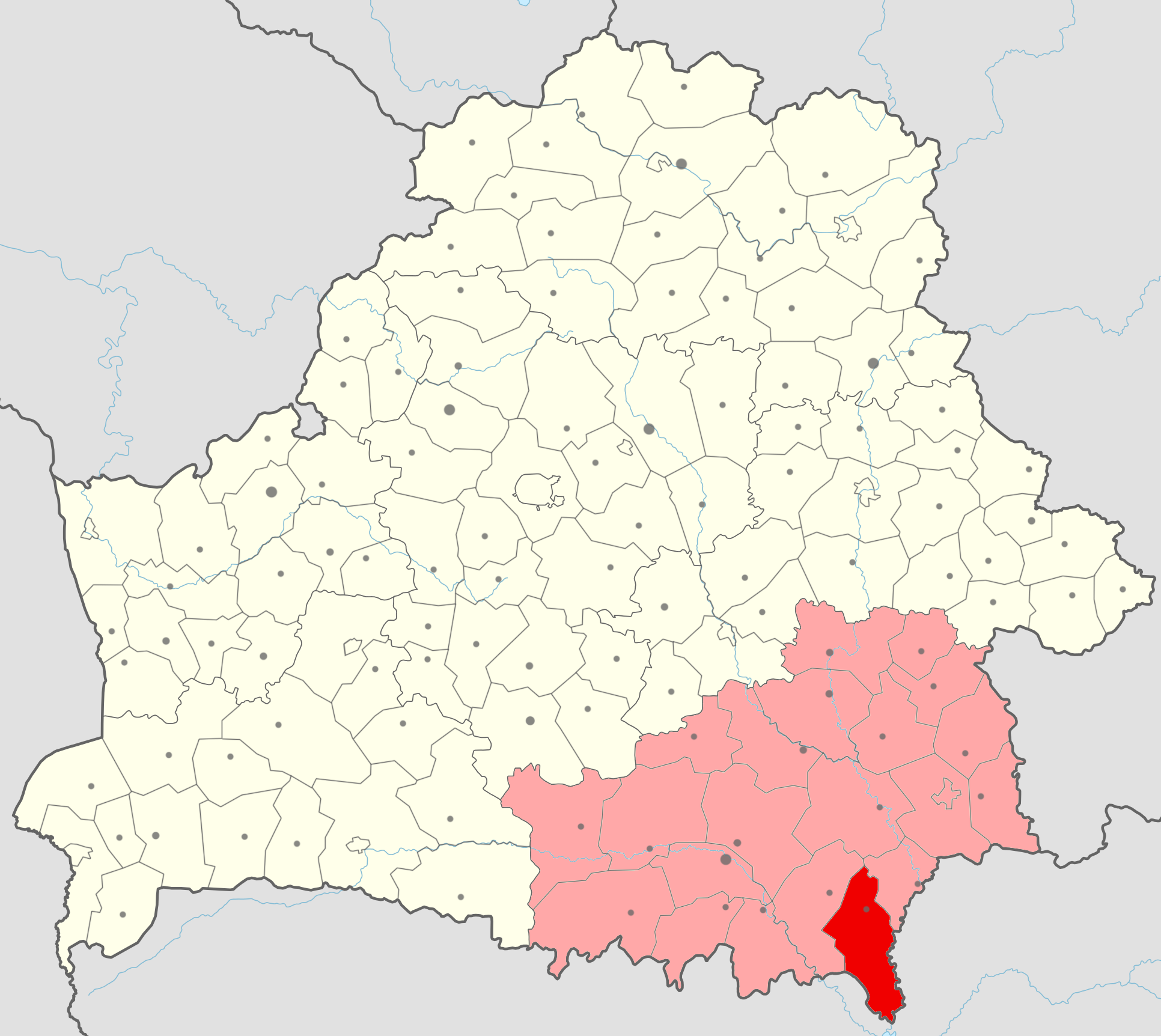 Location of Brahinski rajon (red) in Homieĺskaja voblasć (light red) in Belarus.